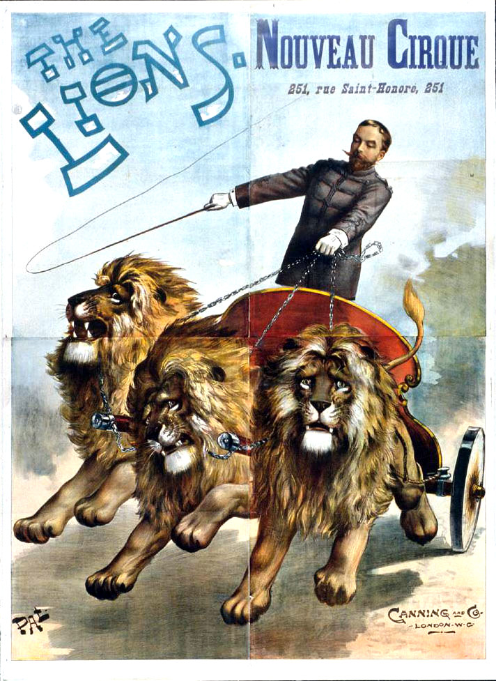 Poster for "The Lions" at the Nouveau Cirque, 251 rue Saint-Honoré, Paris